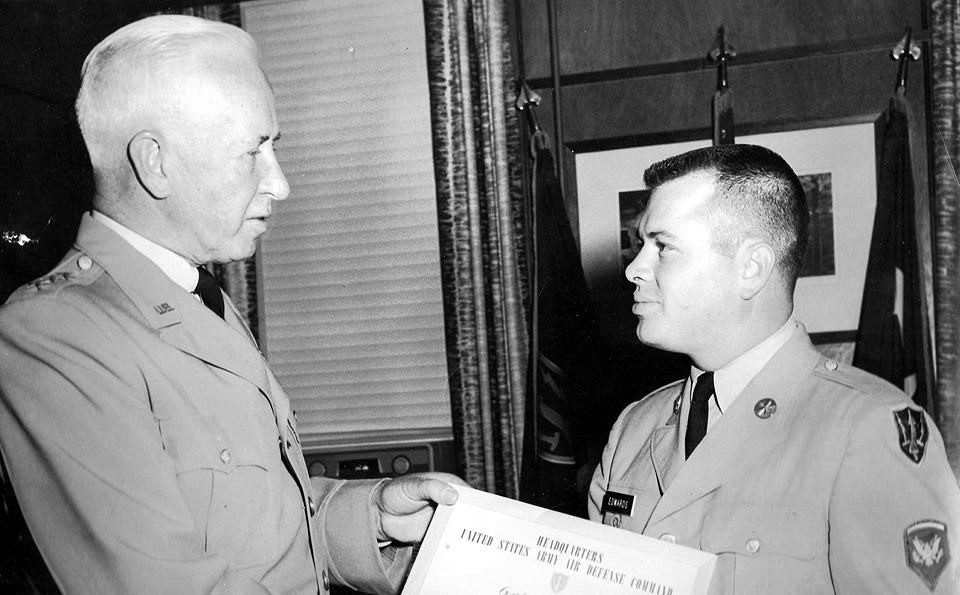 Presentation of award to Specialist Donald B. Edwards by Lt. General Charles E. Hart in 1960 at the Army Air Defense Command HQ in Colorado Springs, CO, Ent AFB.